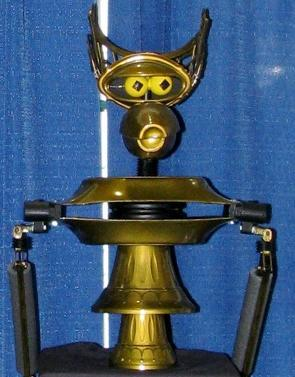 Crow T.Robot, detail from a bigger photo